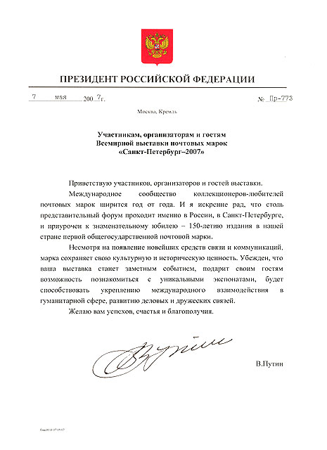 An official letter by Vladimir Putin, in which he addresses the World Philatelic Exhibition «St. Petersburg-2007». Signed on May 7, 2007